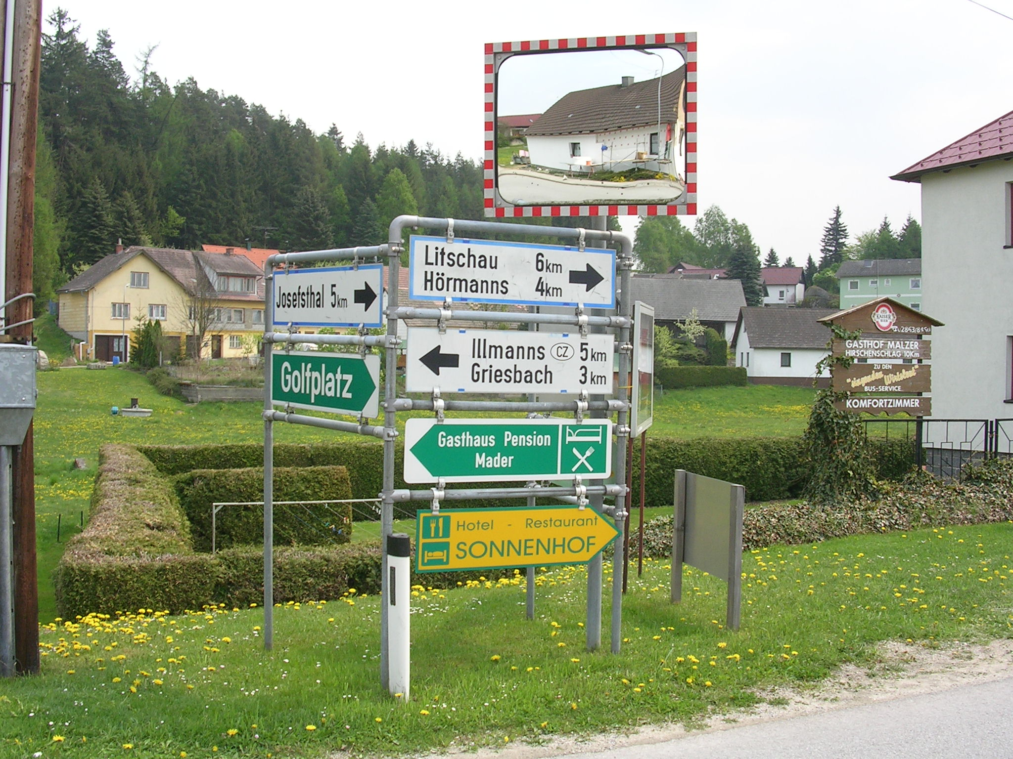 Haugschlag, Austria.